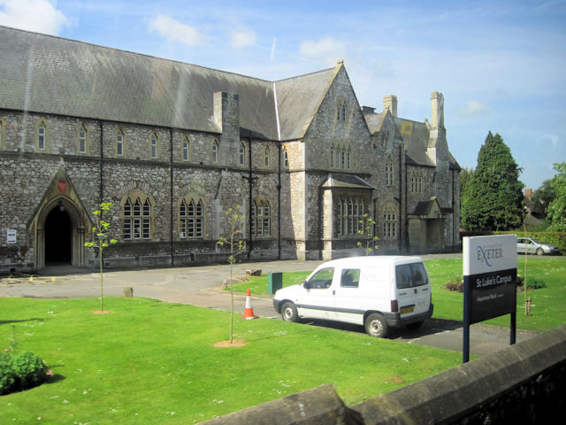 St Lukes Campus Exeter university